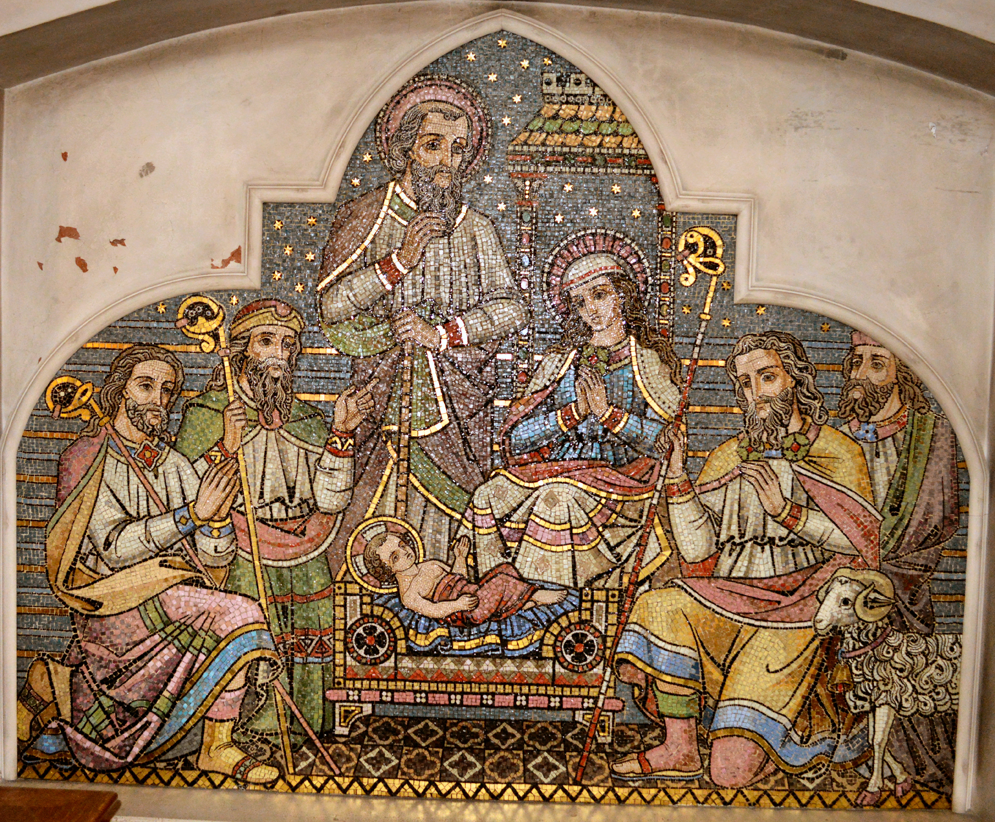 Fulham Palace, The Tait Chapel mosaic by Salviati of Venice